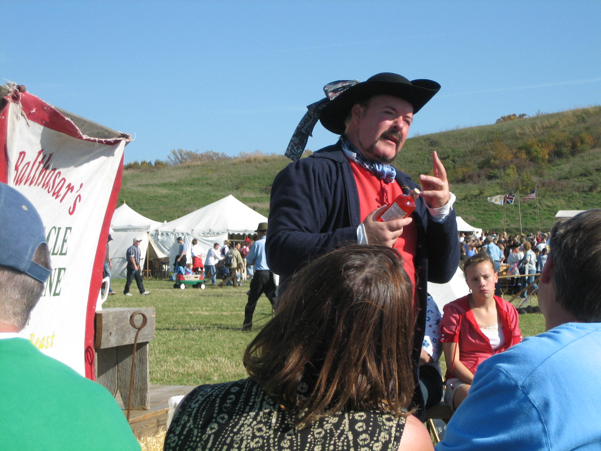 A reenactor portrays a traveling Medicine Show salesman, c. 1830, at the McHenry County, Illinois, Trail of History festival at Glacial Park in the village of Ringwood, Illinois.